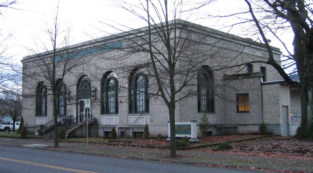 US Post Office - St Johns Station historical building in Portland, Oregon, USA (North View)